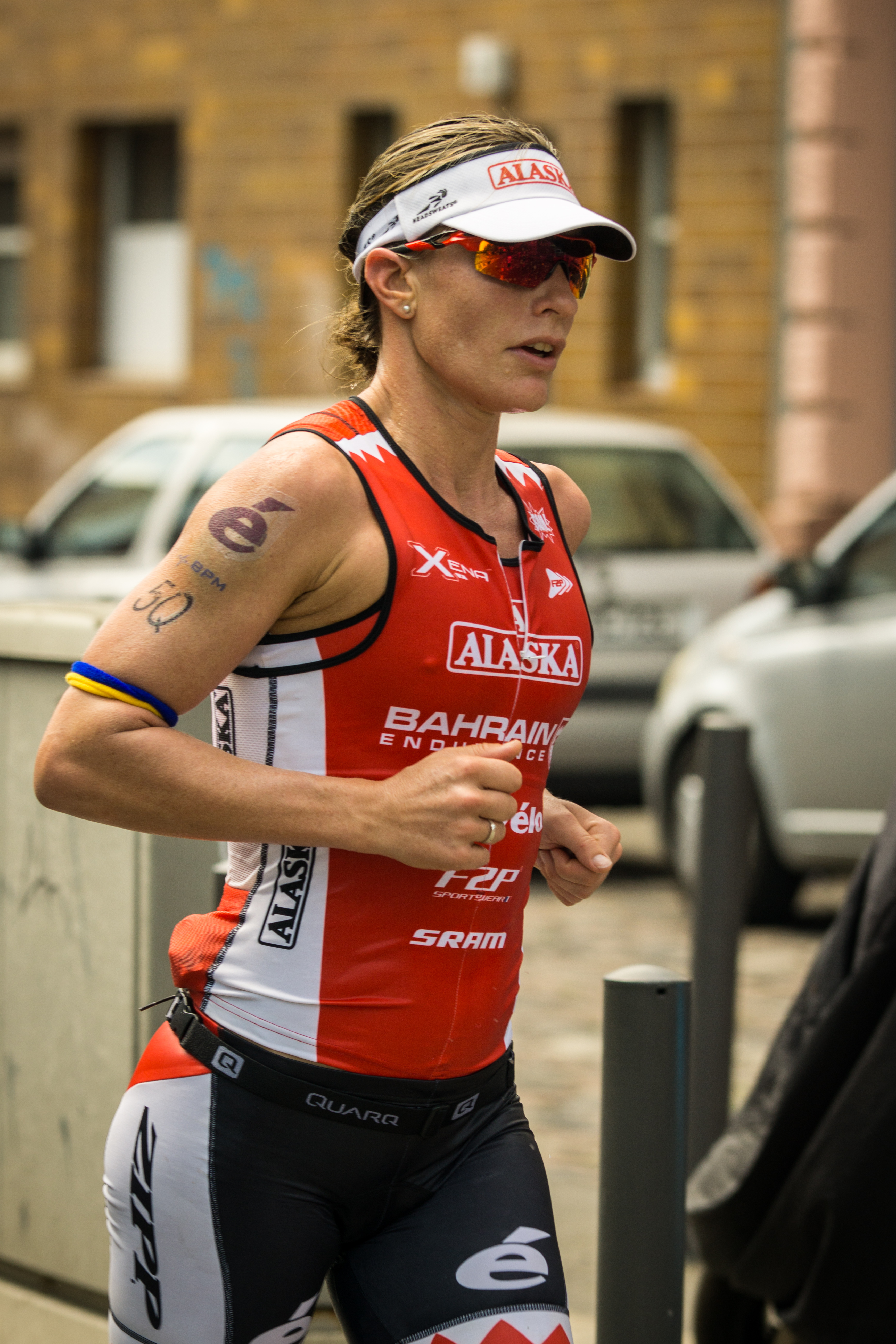 Caroline Steffen at the 2015 Ironman European Championship in Frankfurt am Main.